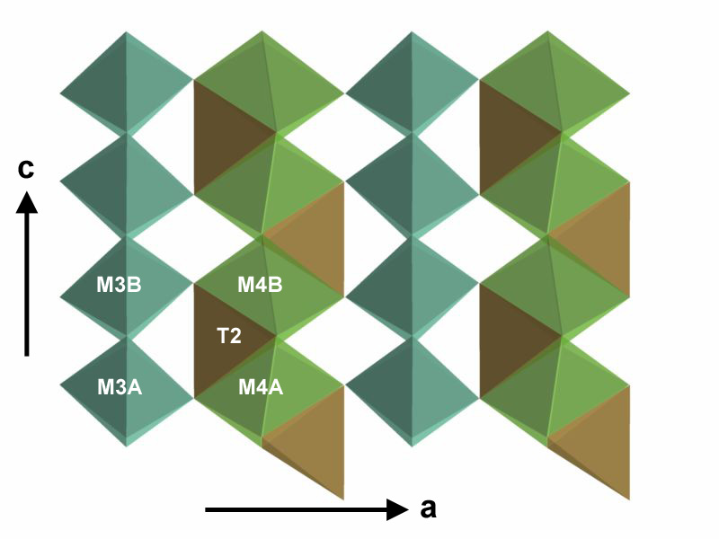 Staurolite structure: Oxide-Hydroxide-Layer, view down the b-axis (a-c-plane) based on data from Hawthorne et al. 1993 (Staurolite EH-6) T2: orange tetrahedra M3A,B: blue-green octahedra M4A,B: green octahedra author: W. Bubenik using anim8or 0.9